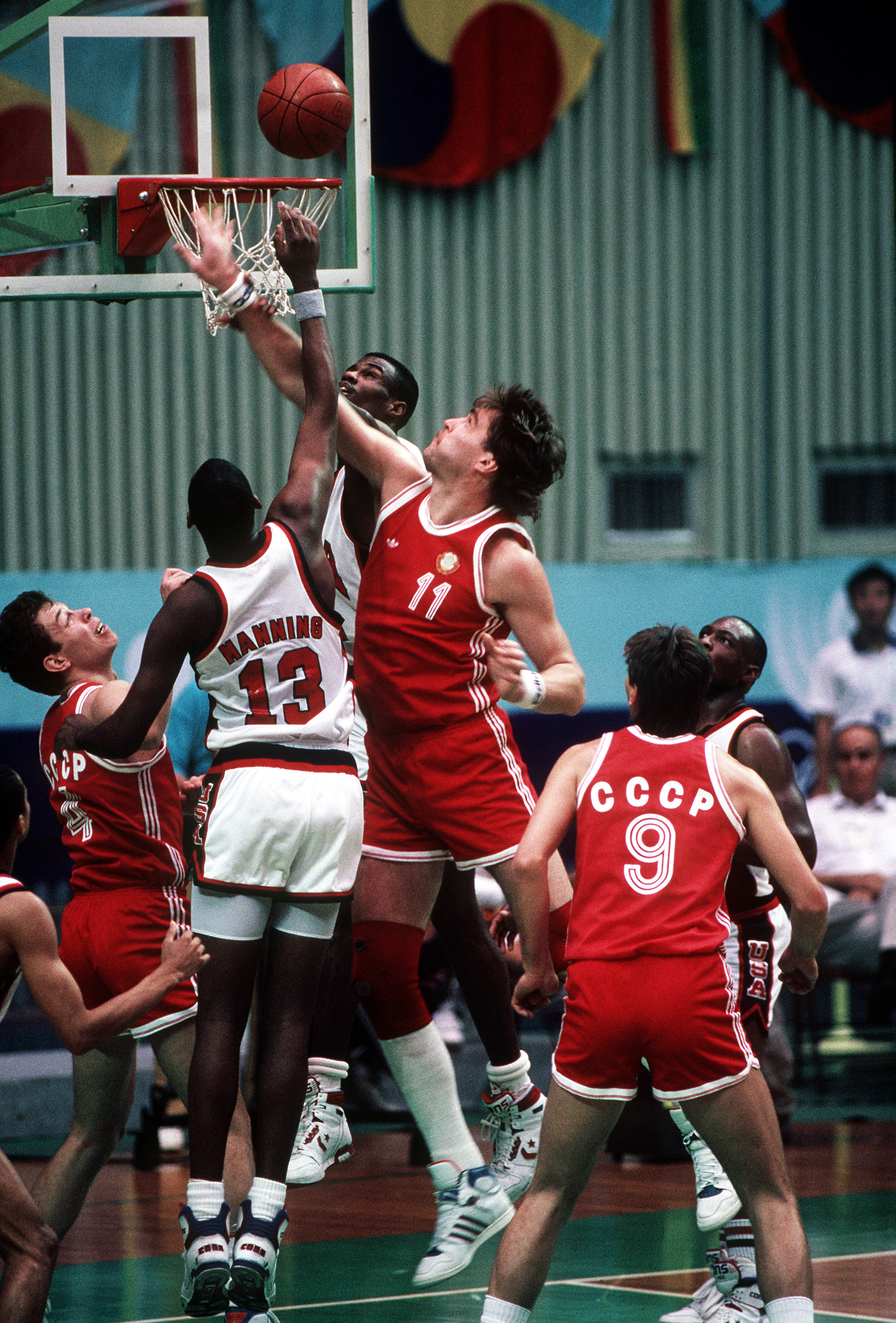 Danny Manning and the Navy's David Robinson battle Arvydas Sabonis for a rebound during the Soviet upset over the US basketball team at the 24th Olympiad.